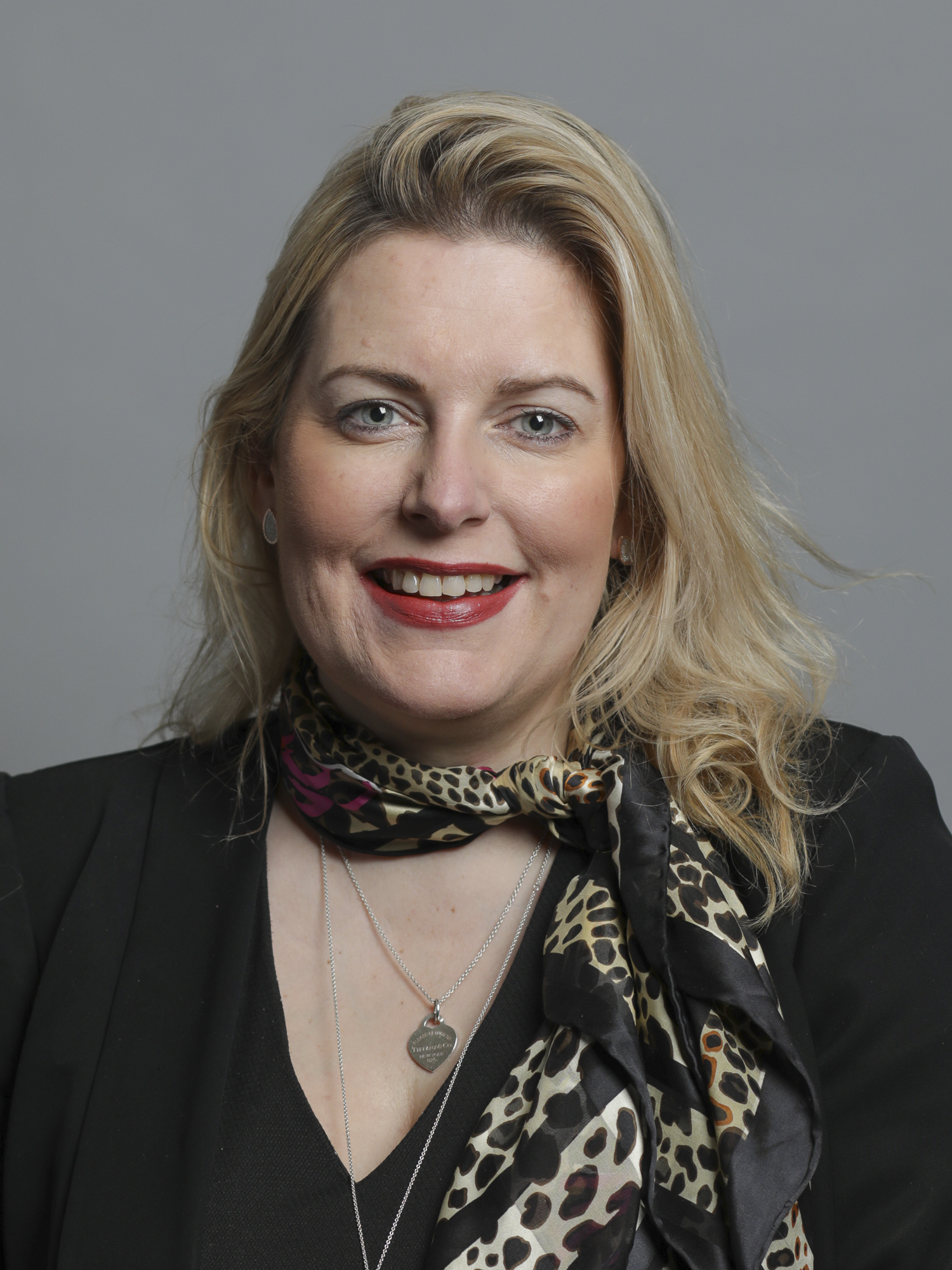 Official portrait of Mims Davies MP 3×4 portrait of Mims Davies MP